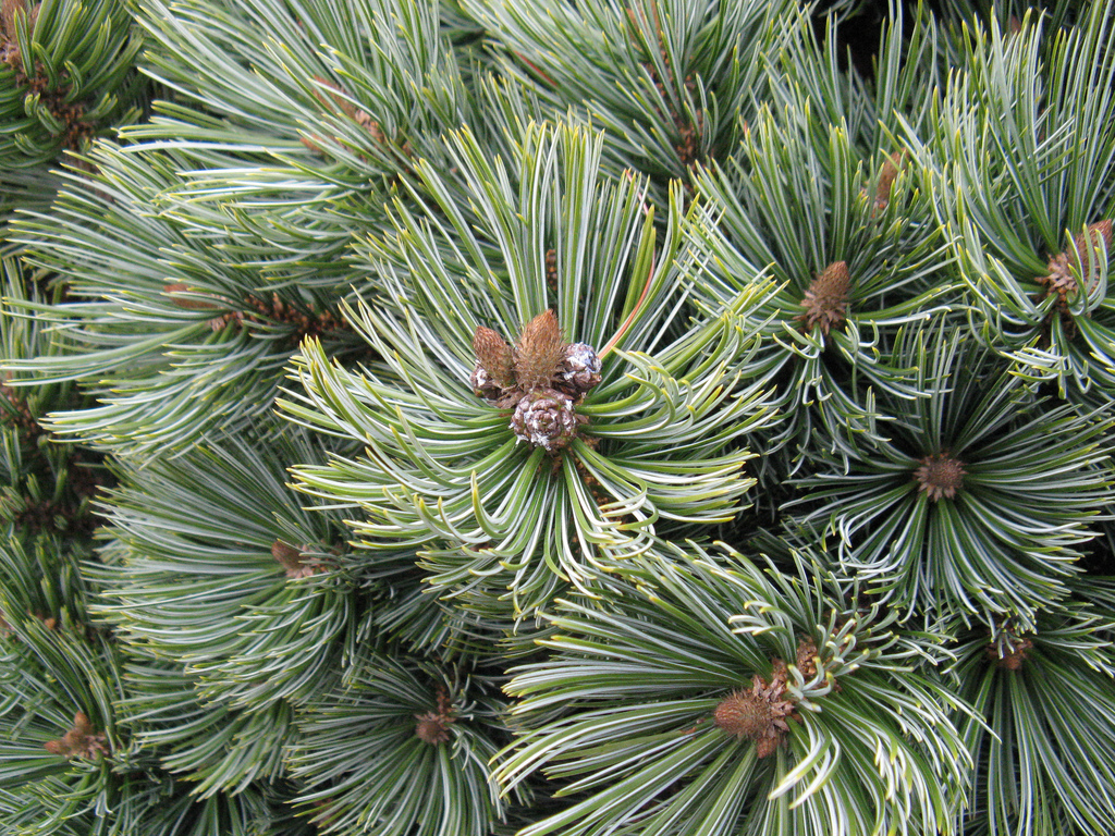 Pinus culminicola, Royal Botanic Gardens, Edinburgh, Scotland.